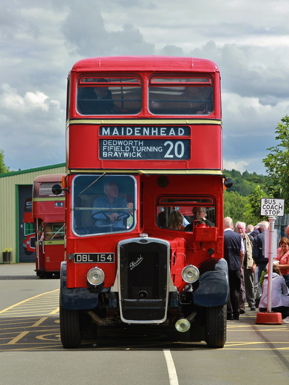 Bristol K6A bus, registration mark DBL 154, visiting Oxford Bus Museum in Long Hanborough, Oxfordshire to celebrate the museum's 50th anniversary. The bus is in Thames Valley Traction livery, carrying fleet number 446.